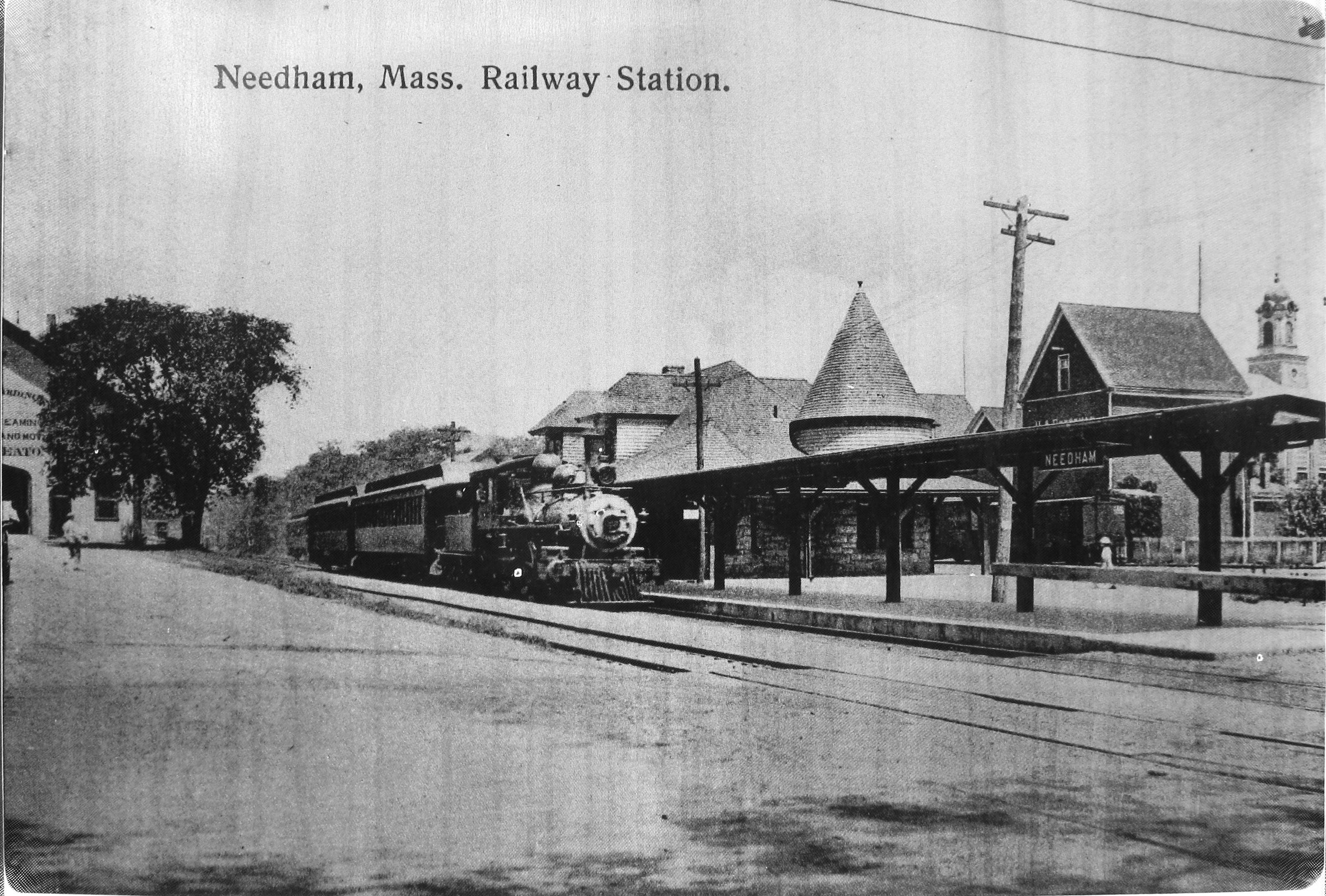 Railroad station in Needham, Massachusetts in 1904. The town hall is visible in the right background. Needham Center station is now located at this crossing.